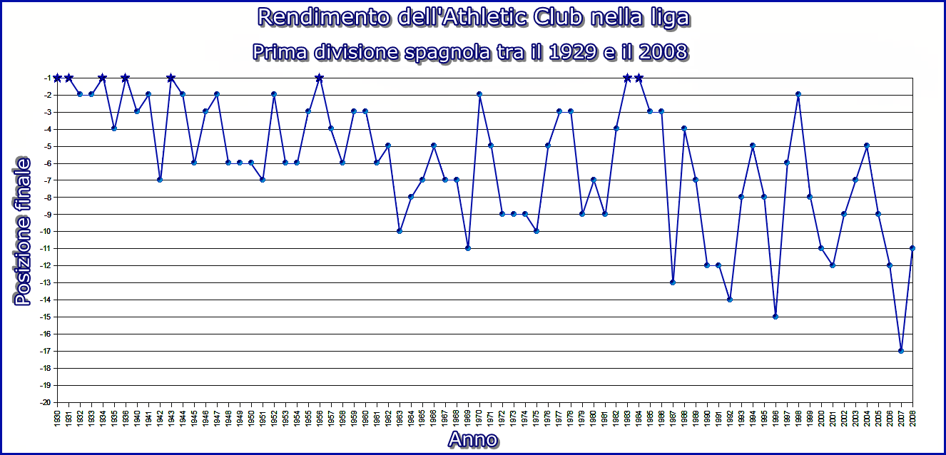 Athletic Club trayectory's in the league (1929-2008)